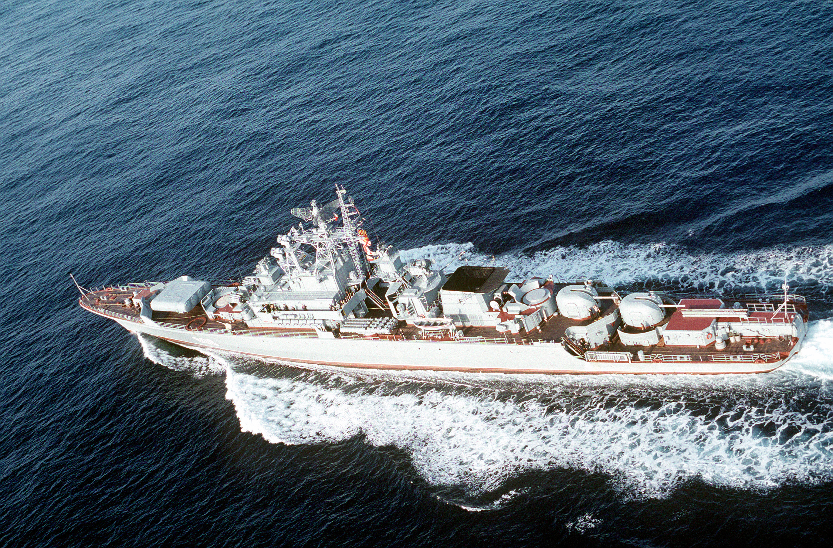 An aerial port view of the Soviet Krivak II class guided missile frigate PYTLIVY underway south of Italy.